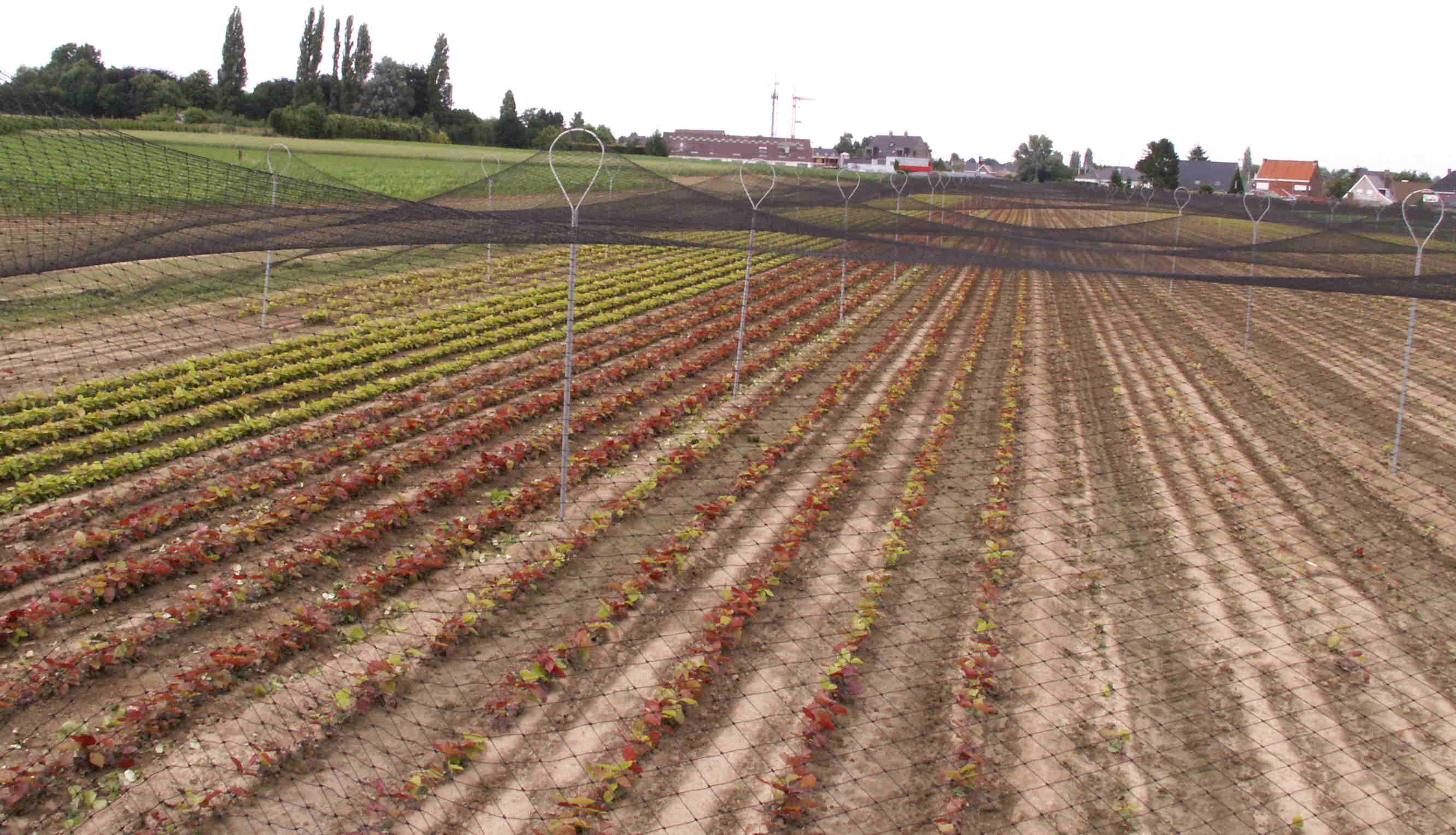 A bird netting, used to keep pigeons from eating the sprouting seeds of Fagus sylvatica. The netting is used by a tree nursery.